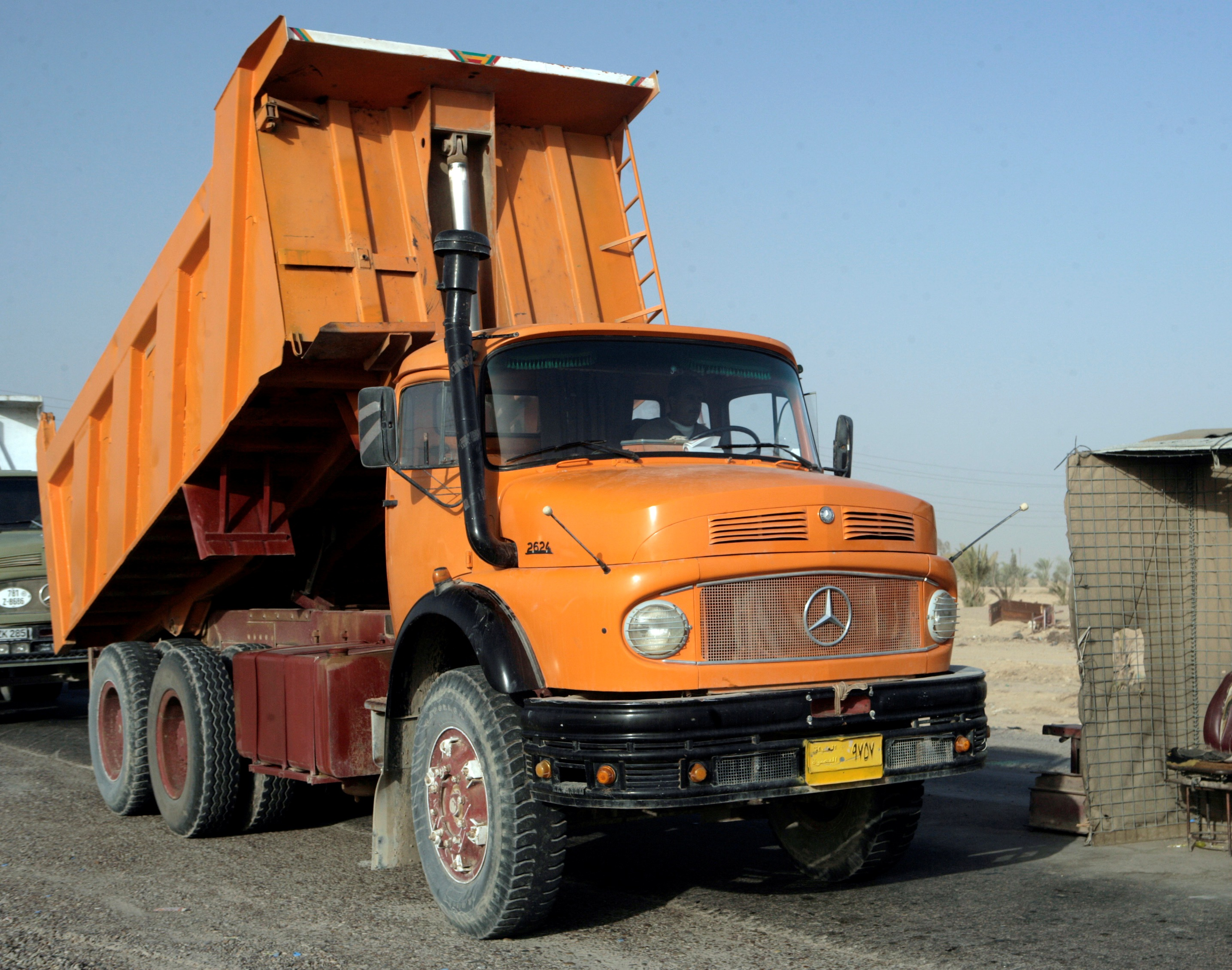 A Mercedes-Benz LA dump truck in Jebadin, Iraq on July 8th, 2008.